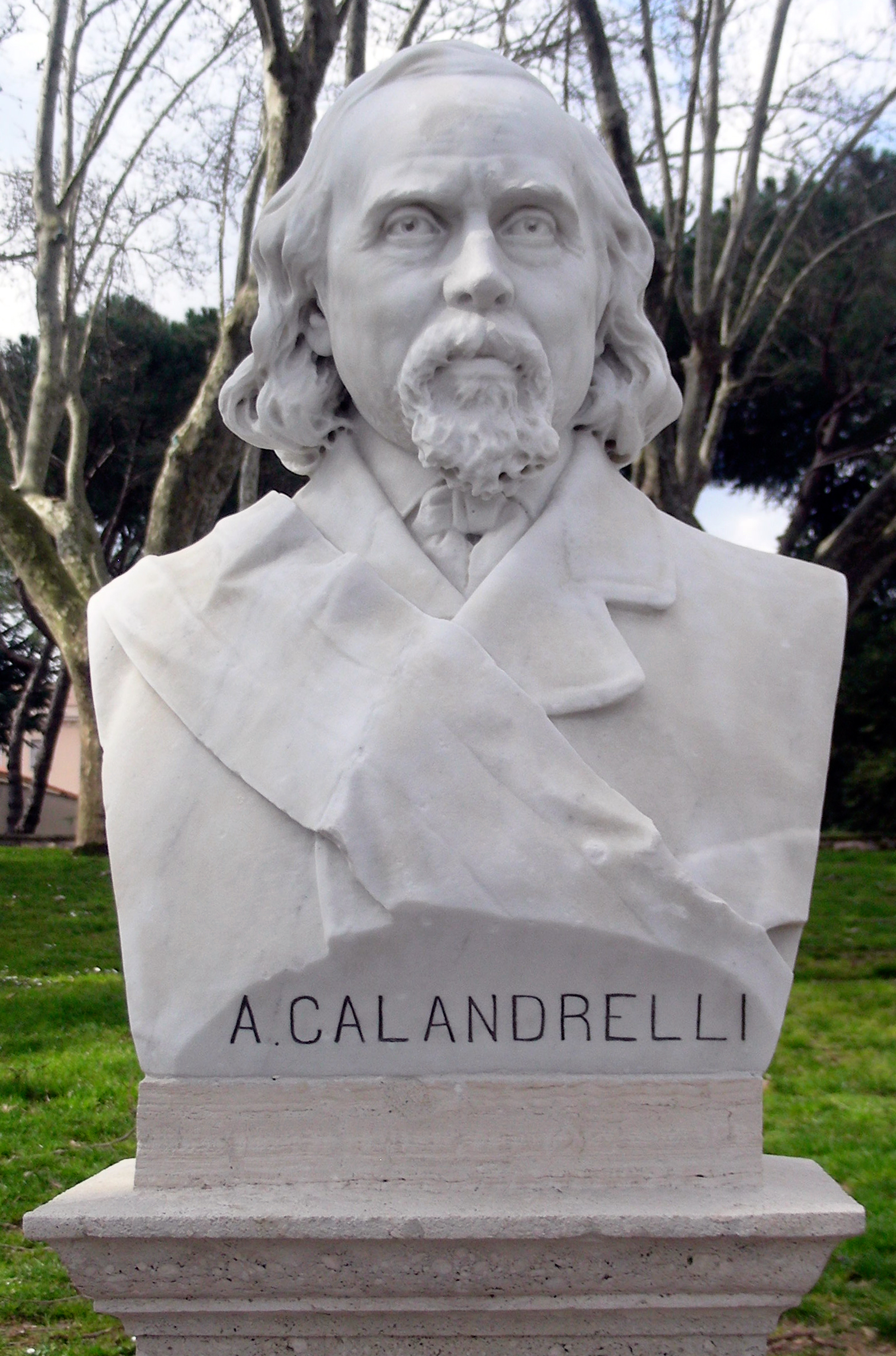 Rome, park of Gianicolo, bust of Alessandro Calandrelli (1805-1888), by Pietro Piraino (1901-1902)